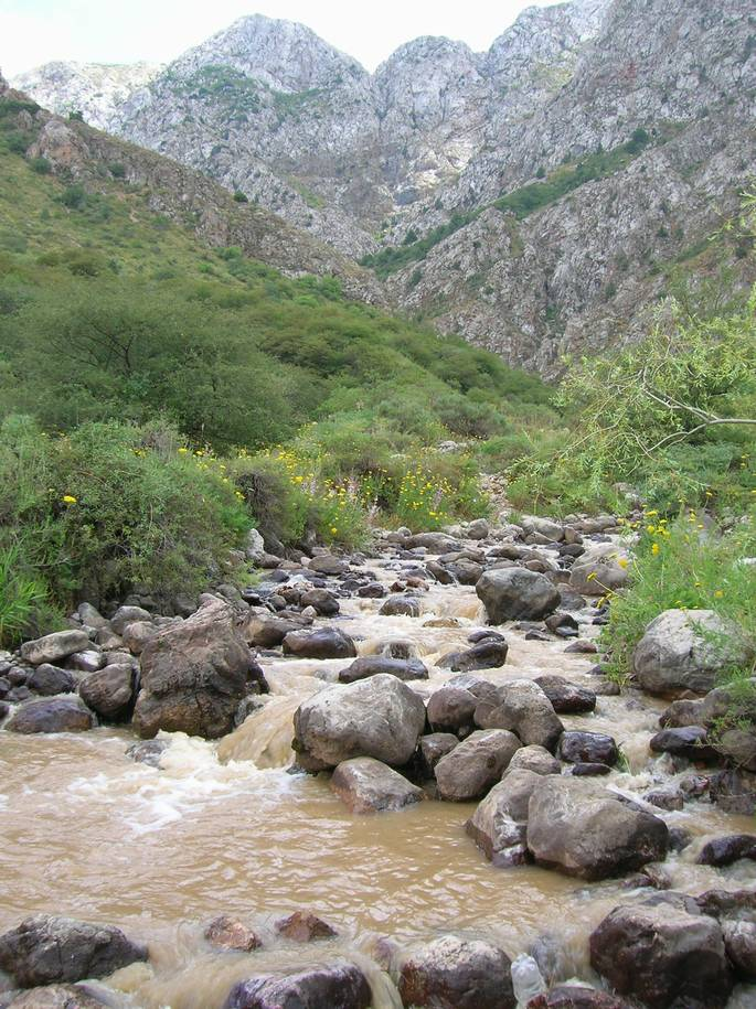 Here are some mountains that are located outside of Shymkent, Kazakhstan. The photo was taken by Russell Solomon in the summer of 2006.